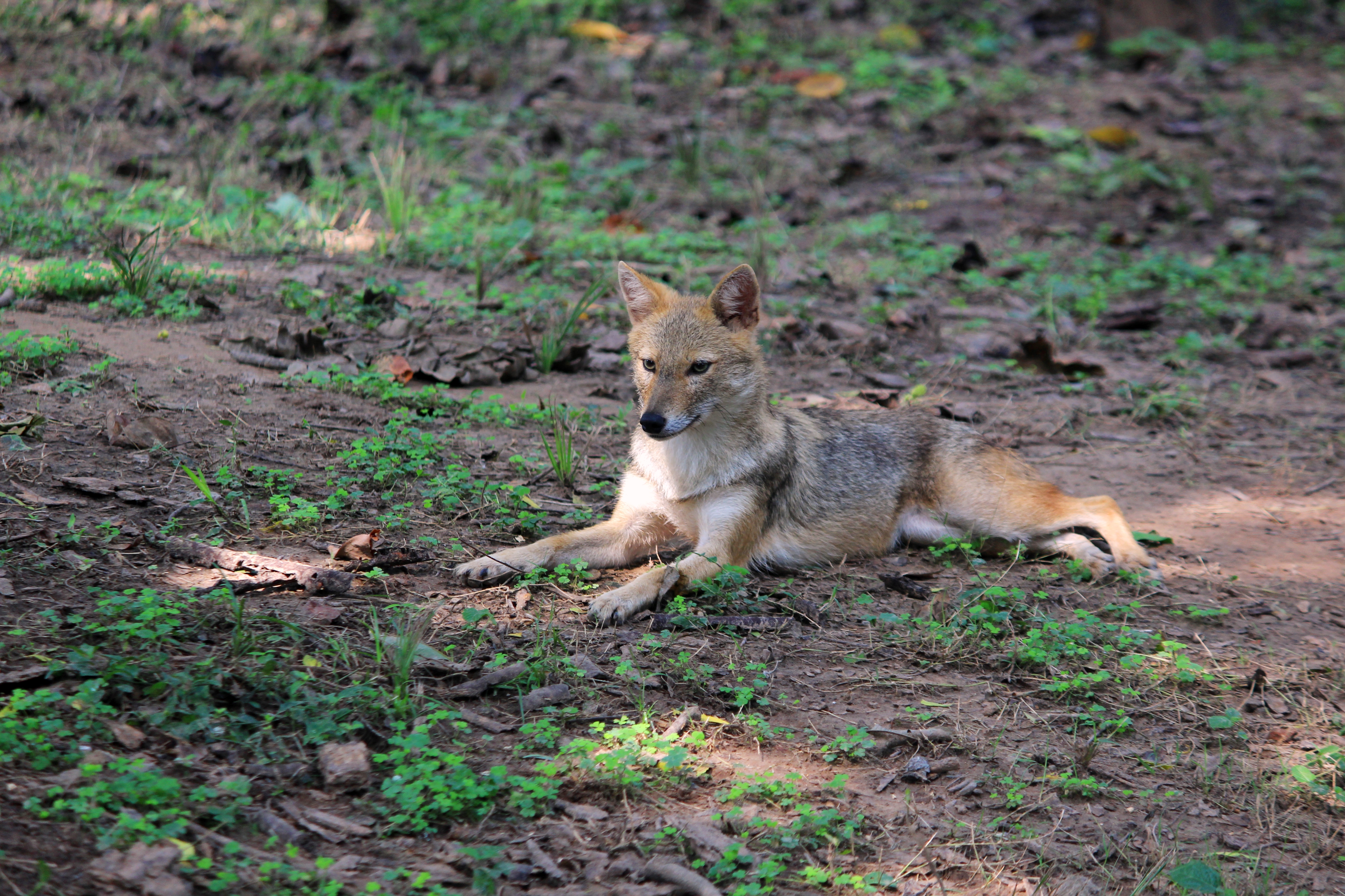 Fox, ChattBir Zoo Zirakpur Mohali Punjab